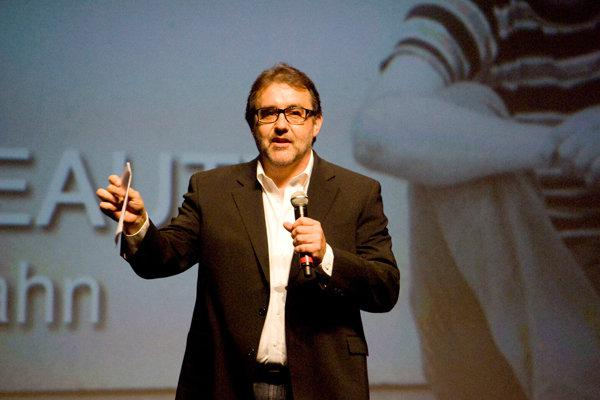 Don Hahn introduces Waking Sleeping Beauty at the Deauville film festival